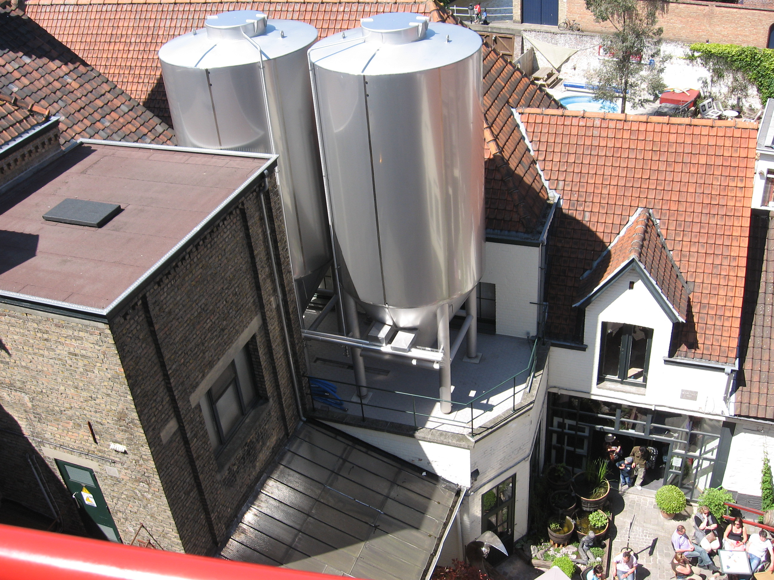 Brewery De Halve Maan in Bruges, Bird's-eye view